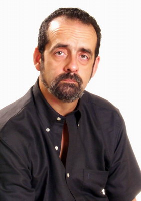 Javier Diez Canseco (2010)